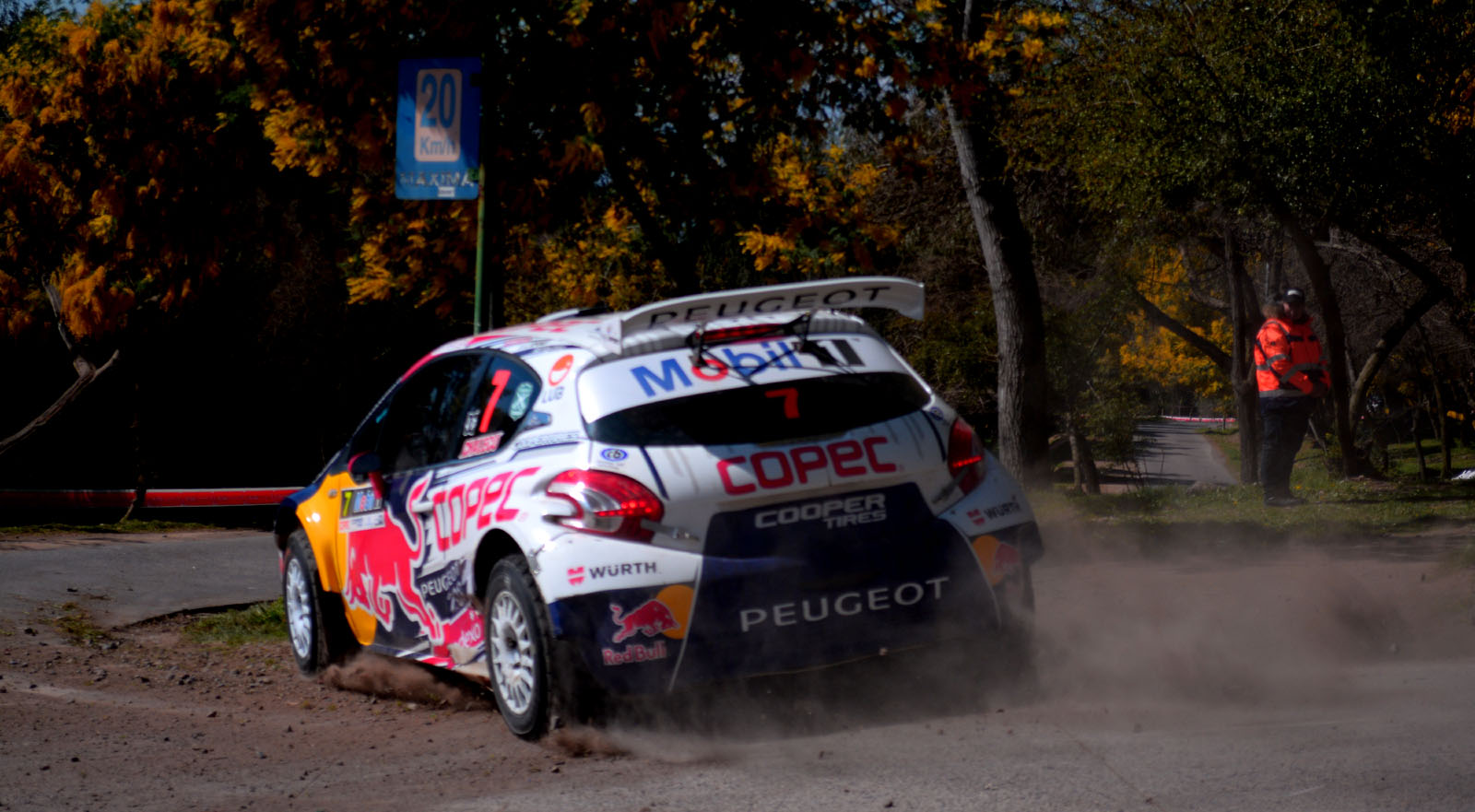 Rallymobil 2018, Peugeot 208 R5